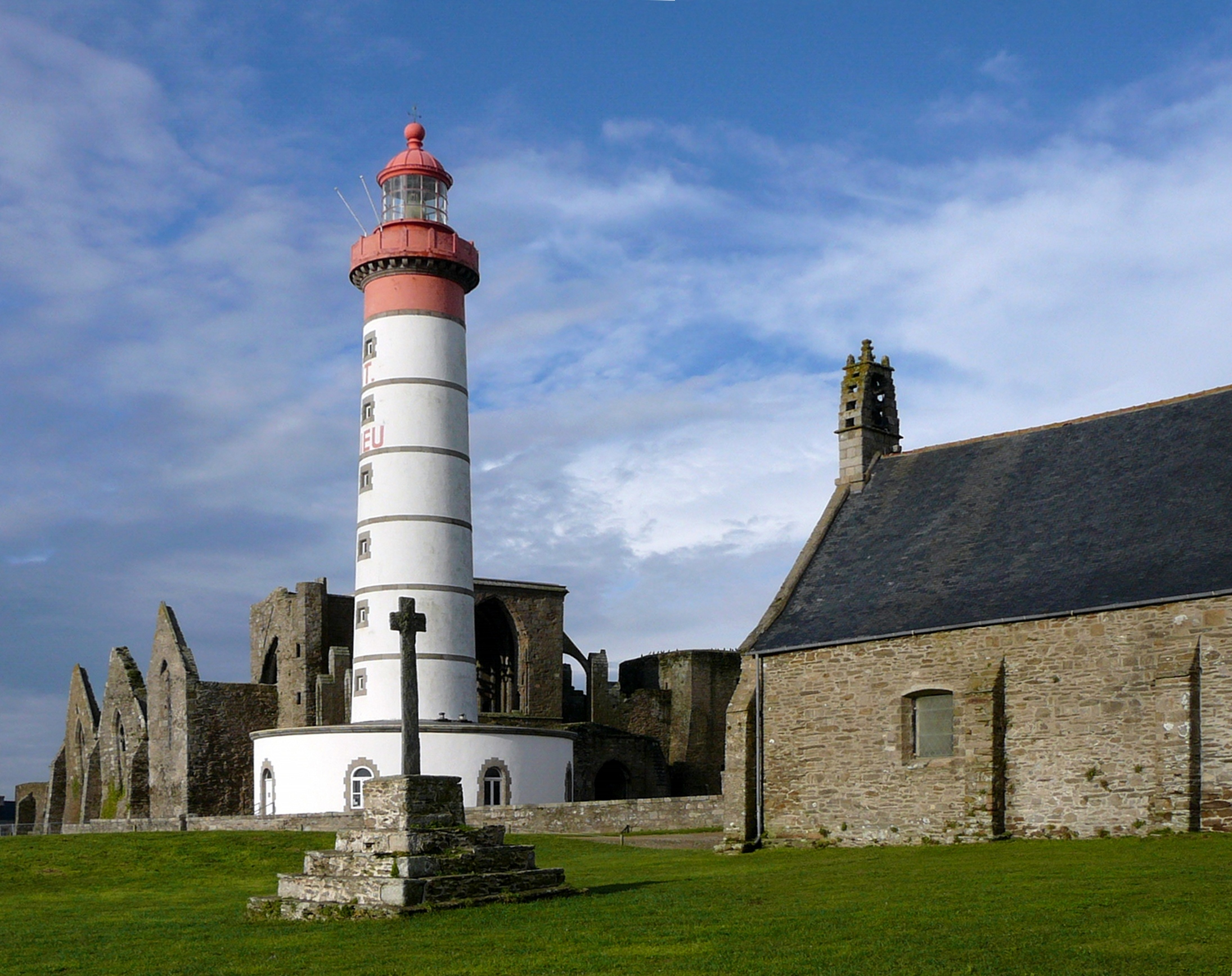 Abbacy and lighthouse of Saint-Mathieu, Britanny (FR)